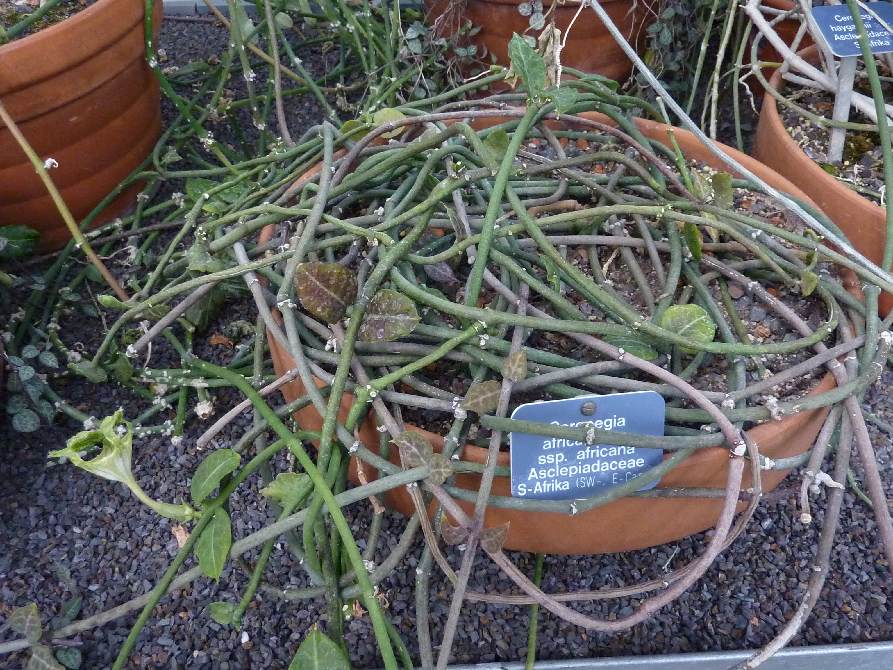 Ceropegia africana at the Botanical Garden of the University of Basel.